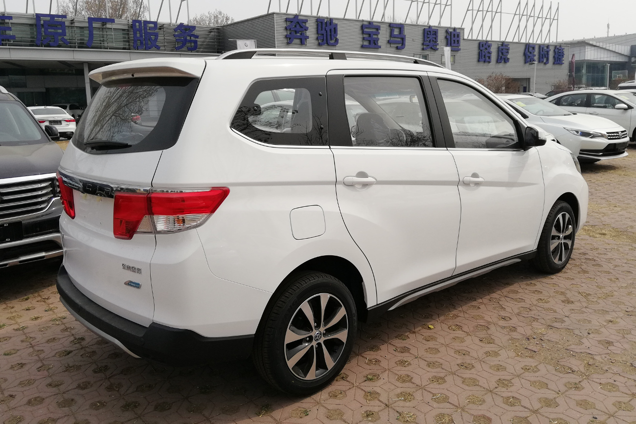 Venucia M50V photographed in Beijing, China.